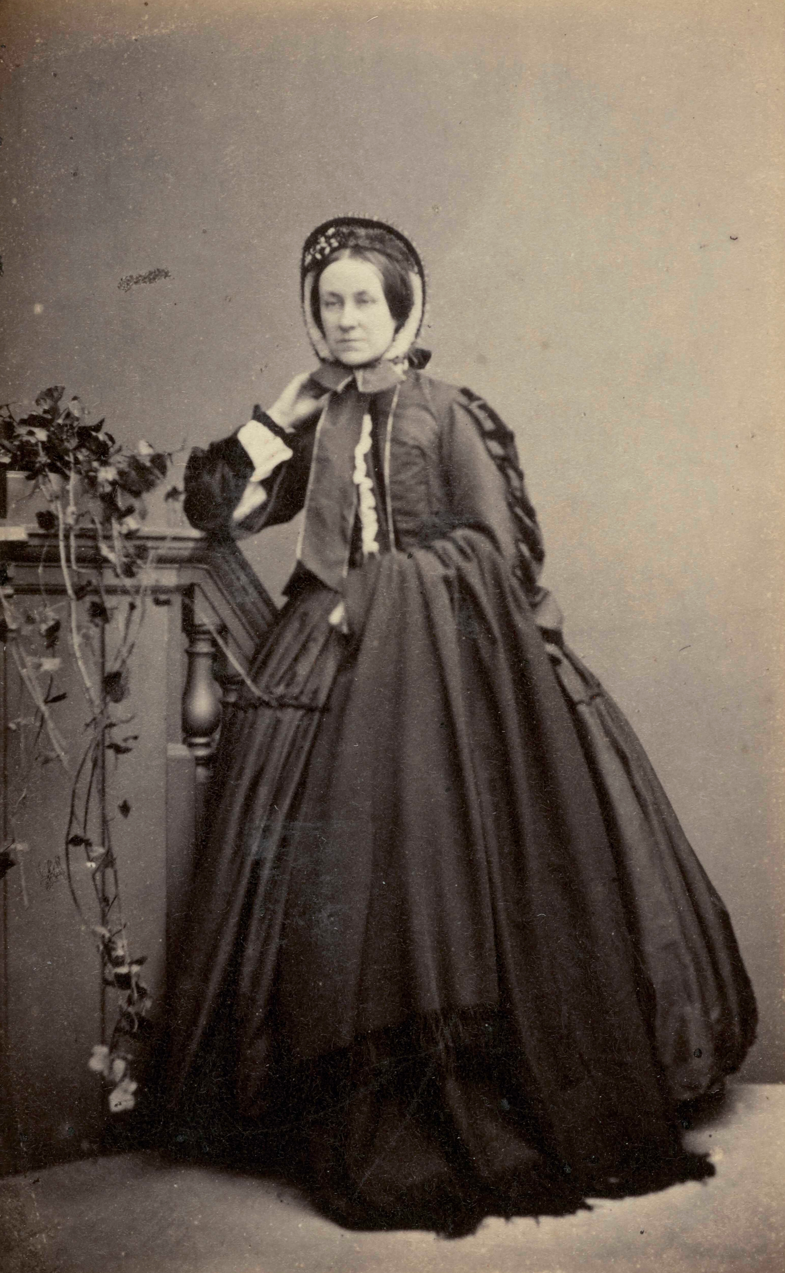 Frances Hooker nee Henslow 1825-1874. First wife of Joseph Dalton Hooker.